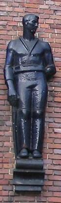 Sculpture in the listed Bärensiedlung (german for „Bear residential development“) at the Oberlandstraße (street) in Berlin-Tempelhof, built in 1929/31.